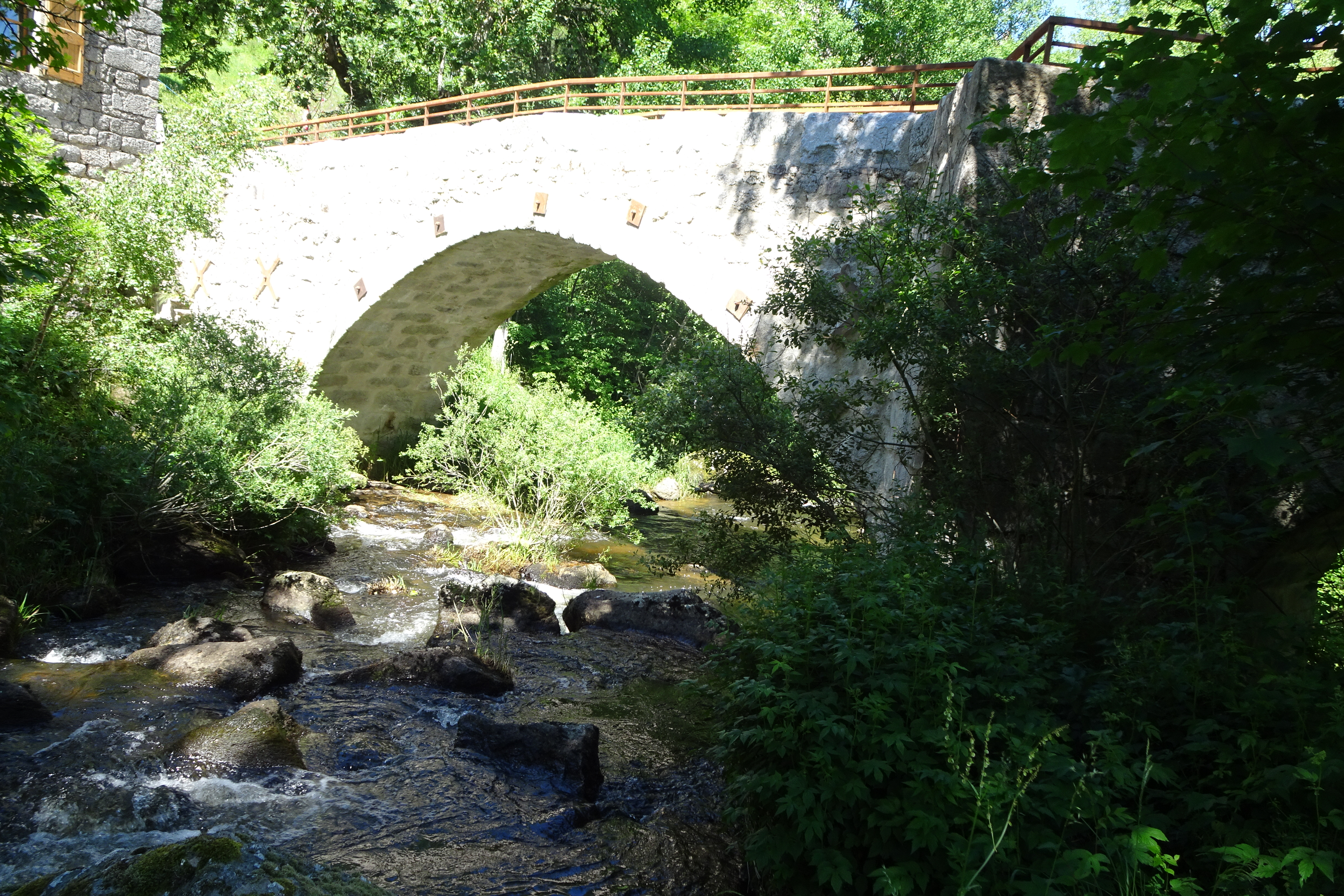 antic bridge "le pont romain" Grandrieu-Margeride-Lozère